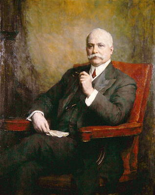 Portrait (1911), oil on canvas, of Sir Edward Holden, 1st Baronet (1848–1919) by Walter William Ouless (1847–1933)